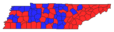 A map of the counties won by each candidate in the United States Senate election in Tennessee.